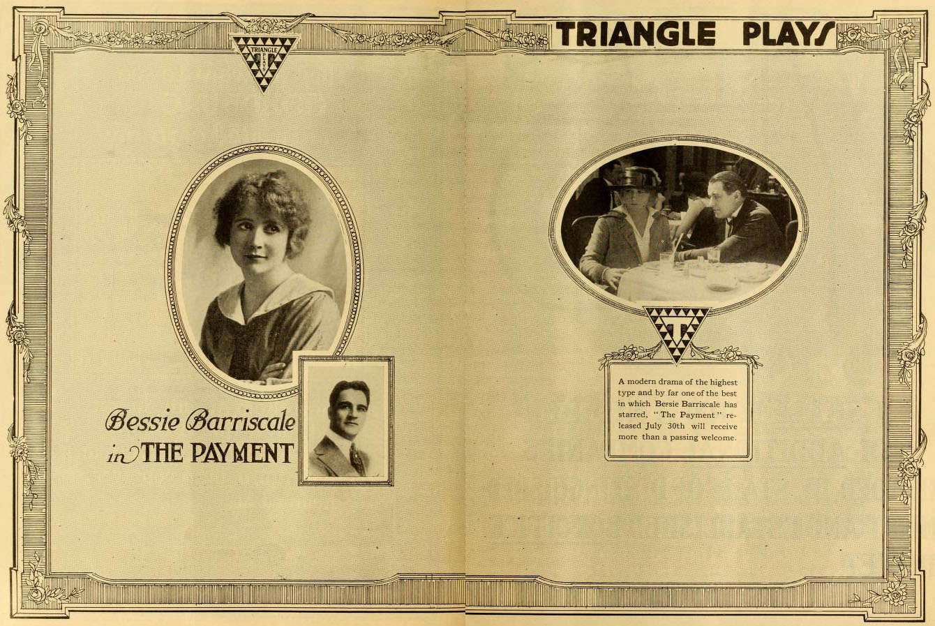 Advertisement in the Moving Picture World for the film The Payment.